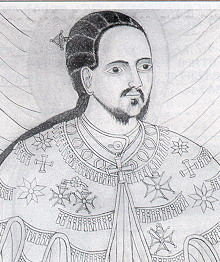 Ethiopian portrait of Emperor Yohannes IV